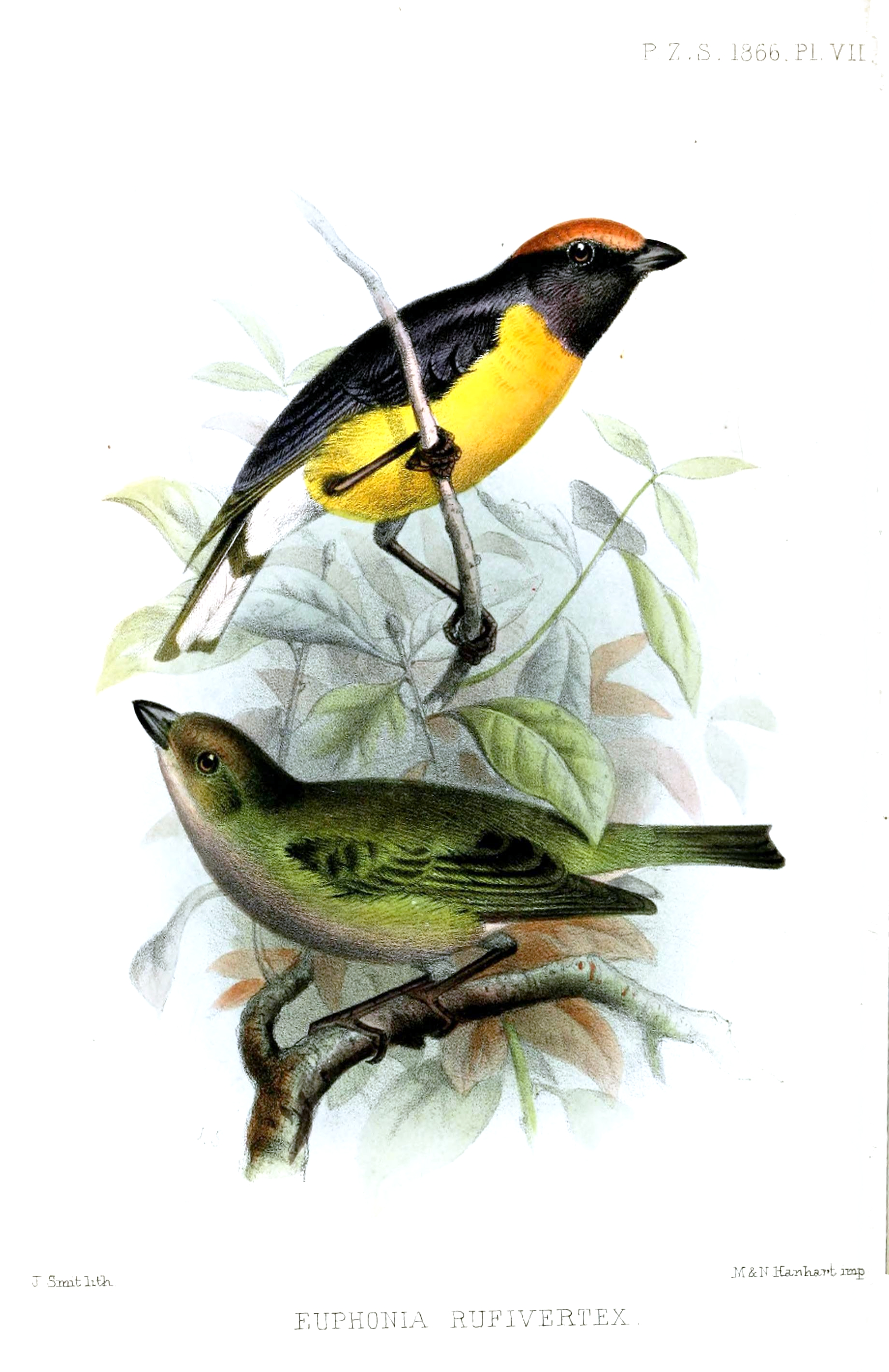 Veraguan Tawny-capped Euphonia, adult male (above) and female